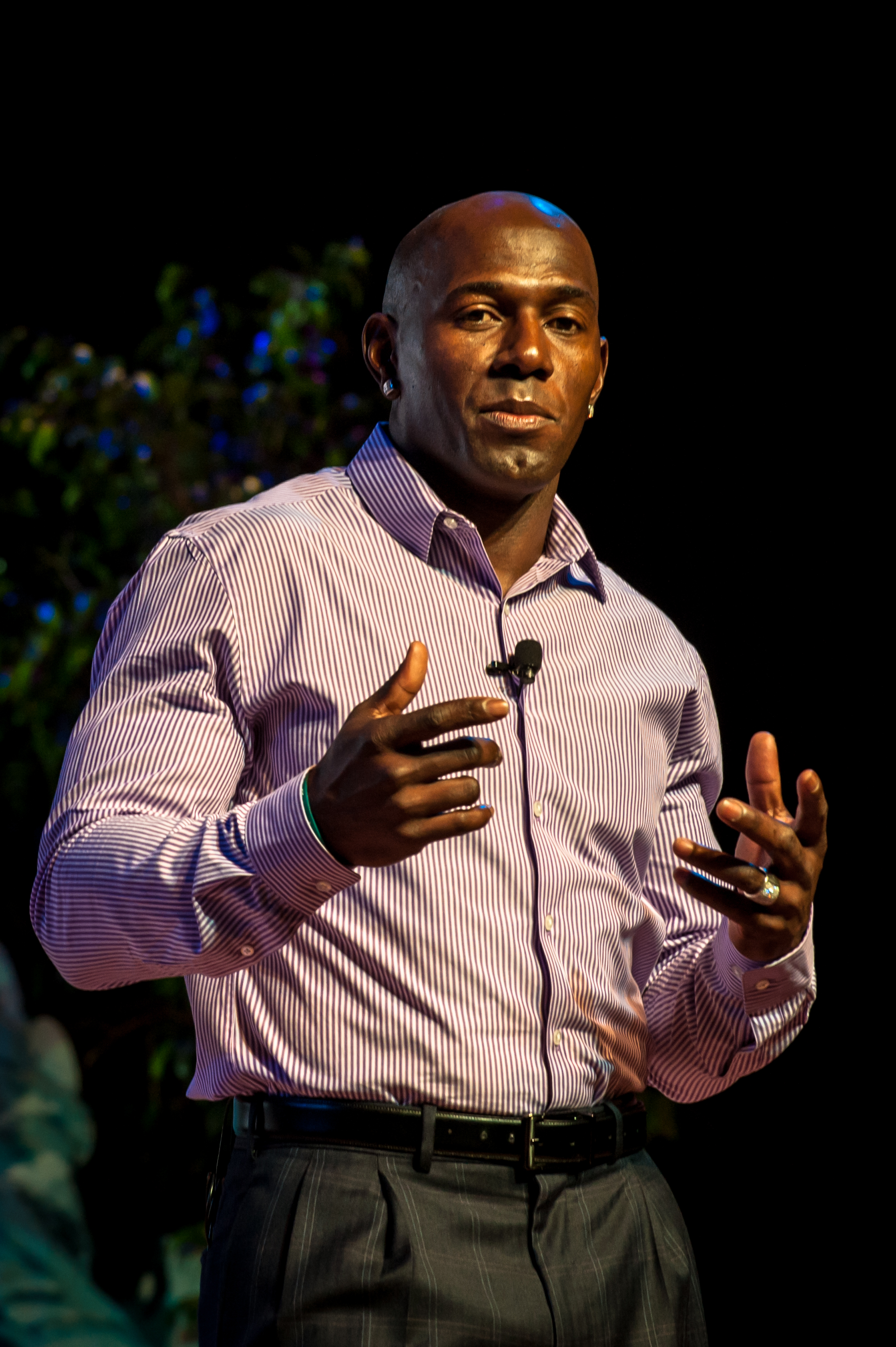 Donald Driver at Disney Social Media Moms Conference